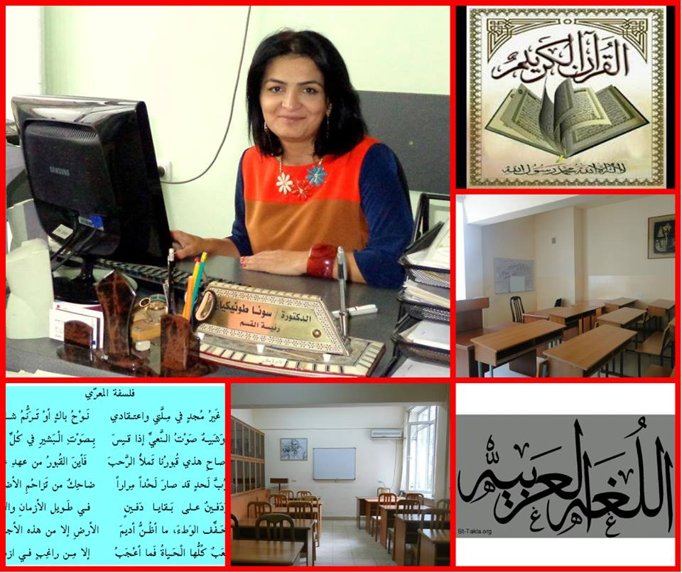 Sona Tonikyan, head of Department of Arabic Studies